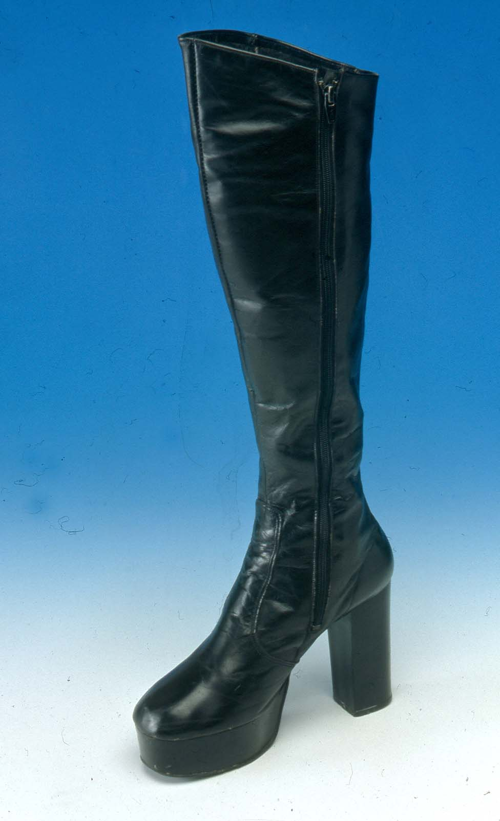 Northampton Museums Service 1979.123.1: Pair of womens black leather leg boots